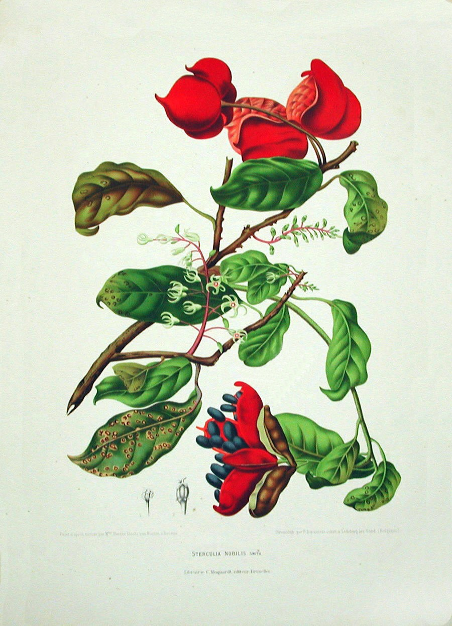 Sterculia nobilis Sm. (Noble Bottle Tree) from "Fleurs, Fruits et Feuillages Choisis de l'Ile de Java" [Selected Flowers, Fruit and Foliage from the Island of Java]